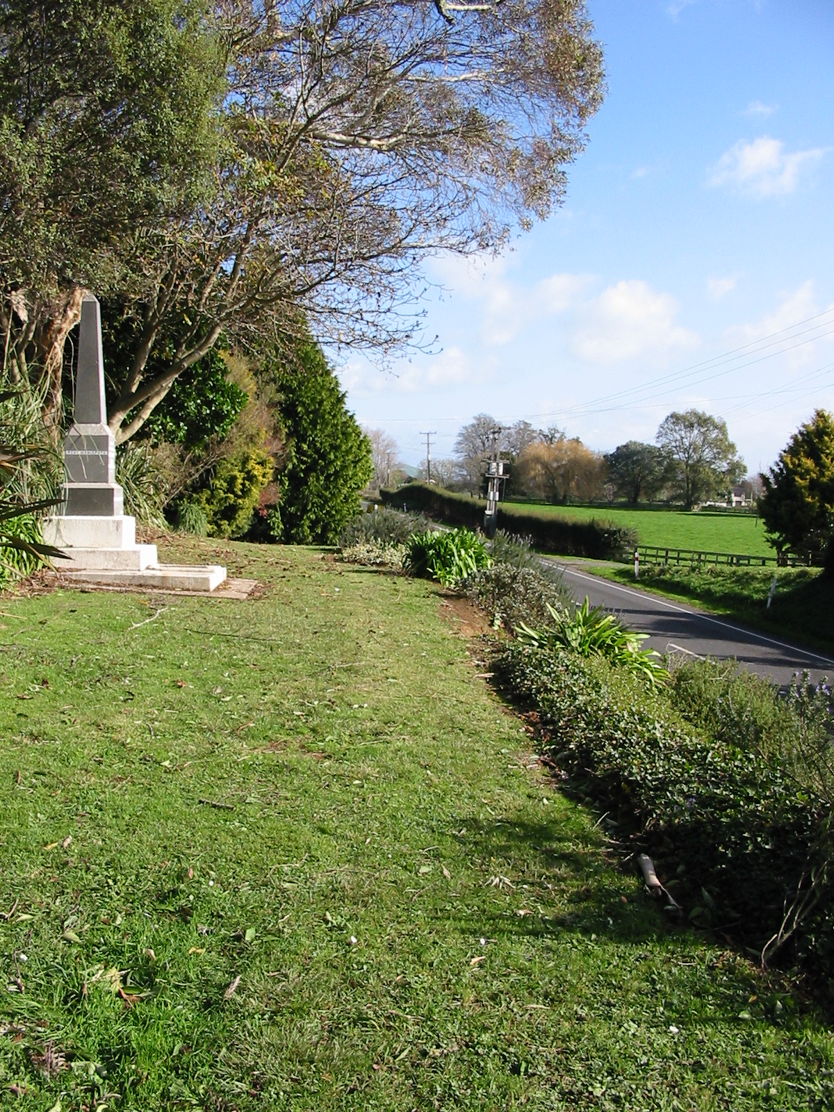 Site of the battle of Orakau, Waikato, New Zealand, showing commemorative monument and the path of the road that now bisects the battle ground.